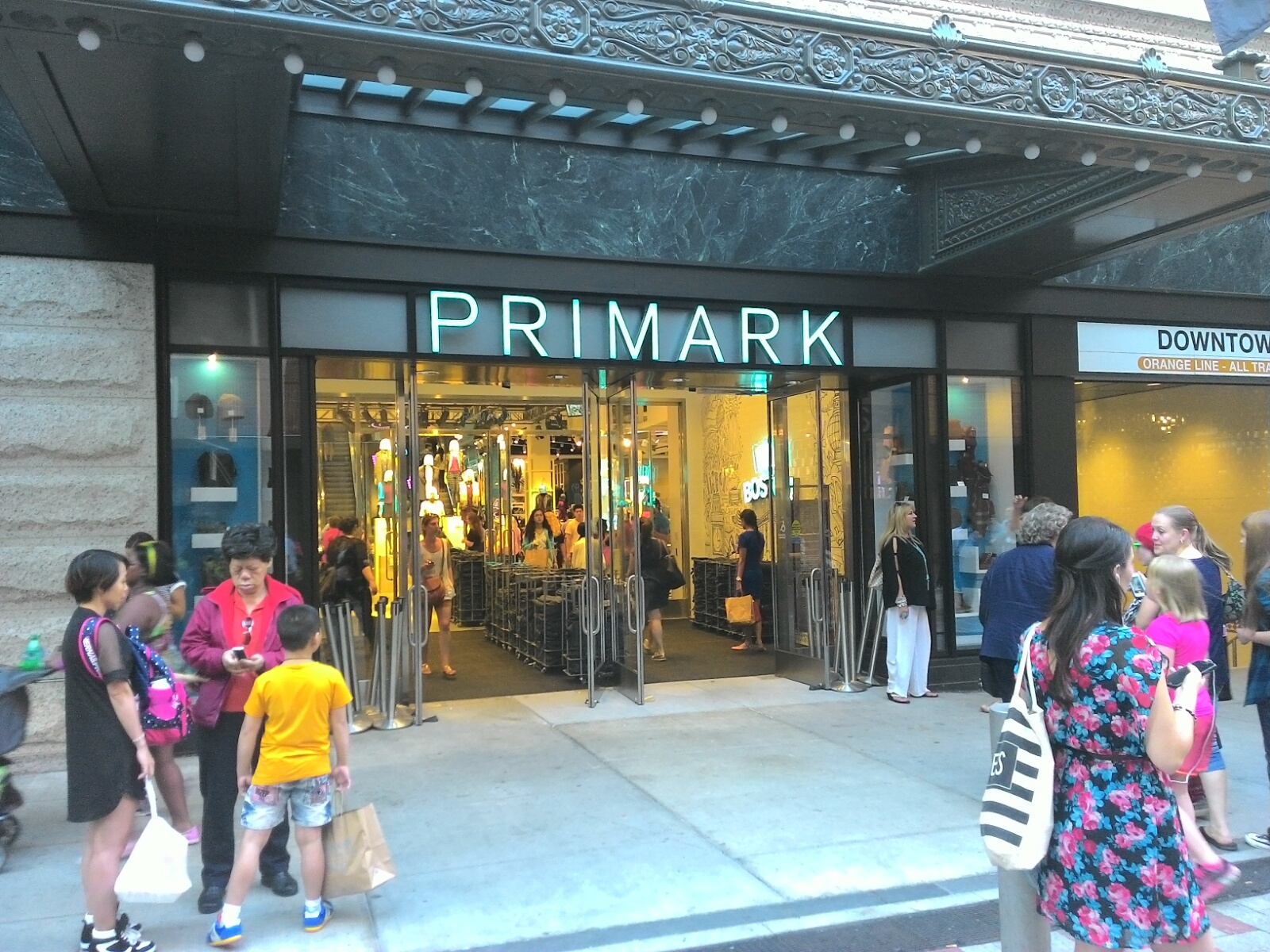 The main entrance of the new PRIMARK store in Boston, Massachusetts at Downtown Crossing on Thursday, September 17, 2015. The store just had its premier opening that week